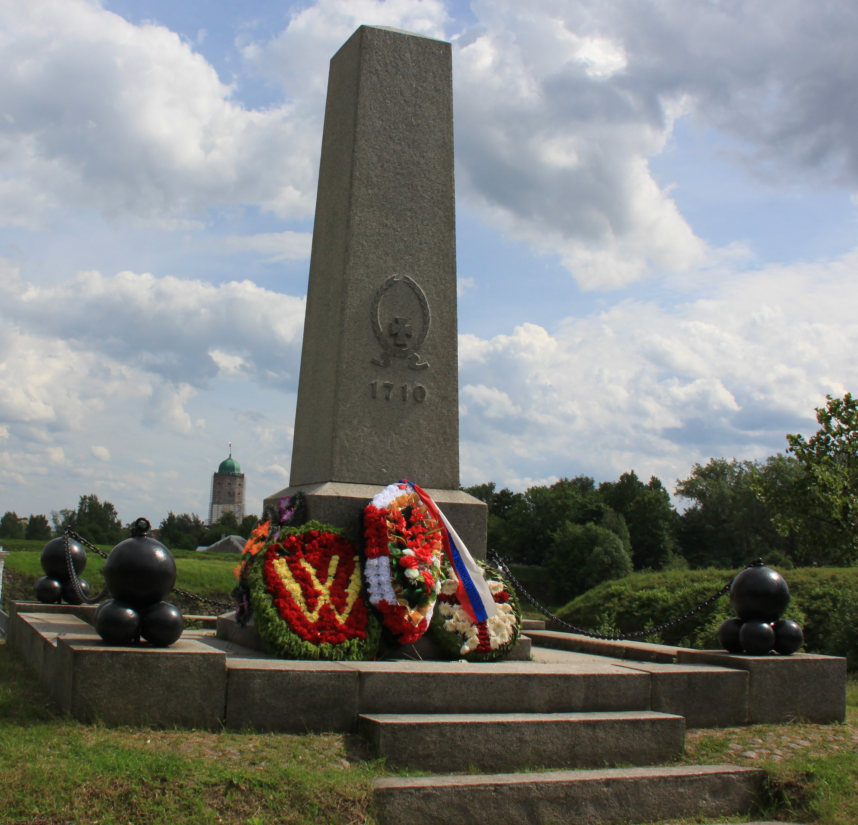 Stela commemorating Russian soldiers died during Vyborg siege in 1710